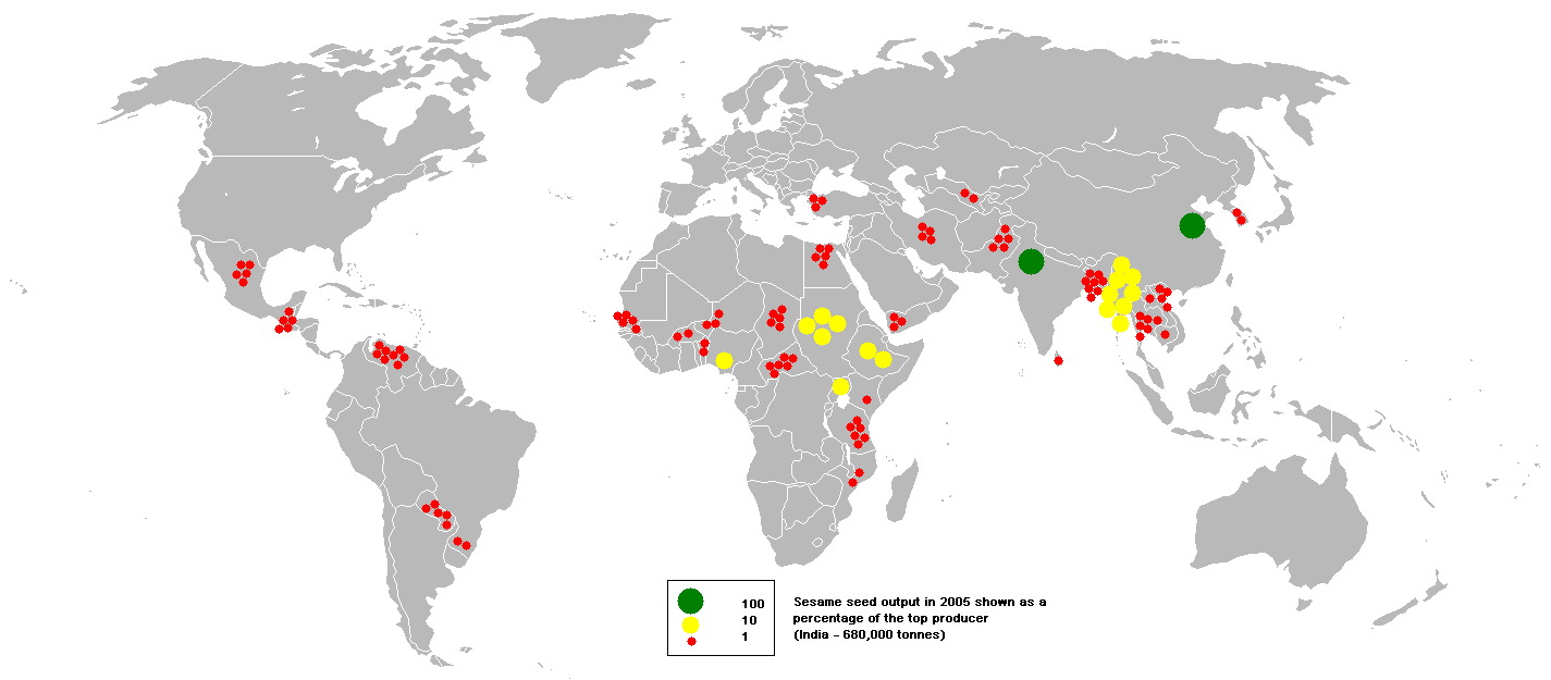 This bubble map shows the global distribution of sesame seed output in 2005 as a percentage of the top producer (India - 680,000 tonnes). This map is consistent with incomplete set of data too as long as the top producer is known. It resolves the accessibility issues faced by colour-coded maps that may not be properly rendered in old computer screens. Data was extracted on 14th June 2007 from Based on :Image:BlankMap-World.png